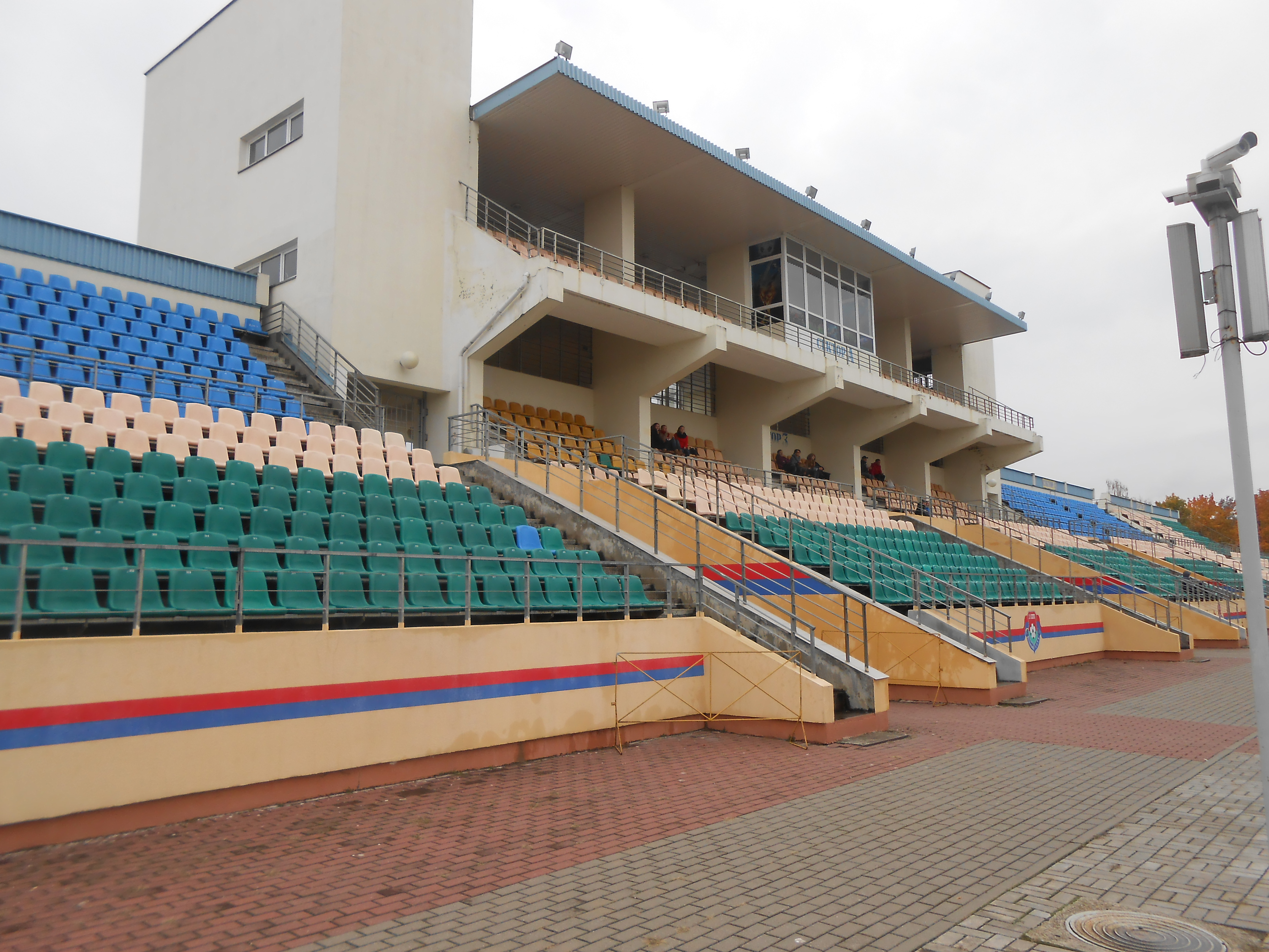 Стадыен "Лакаматыў" . Баранавічы. 6